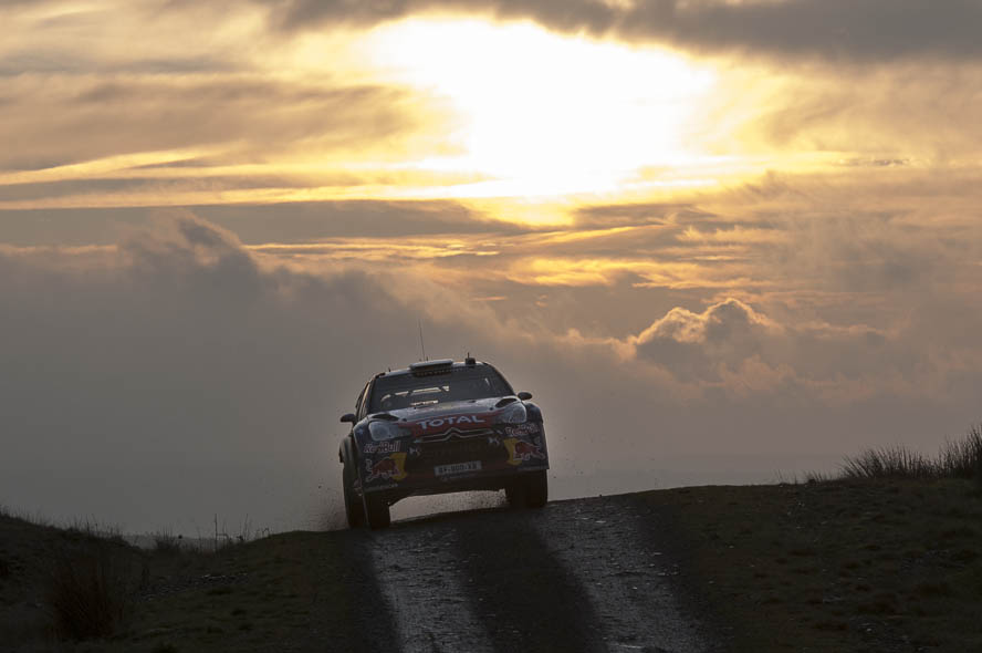 Wales Rally GB 2011 Citroen DS3 WRC,Citroen Total WRT,GBR,Großbritannien,Halfway 1,Julien Ingrassia,Llandeilor-Fan,Motorsport,Rally,Rallye,SS18,Sebastien Ogier,WP18,Wales,Wales Rally GB